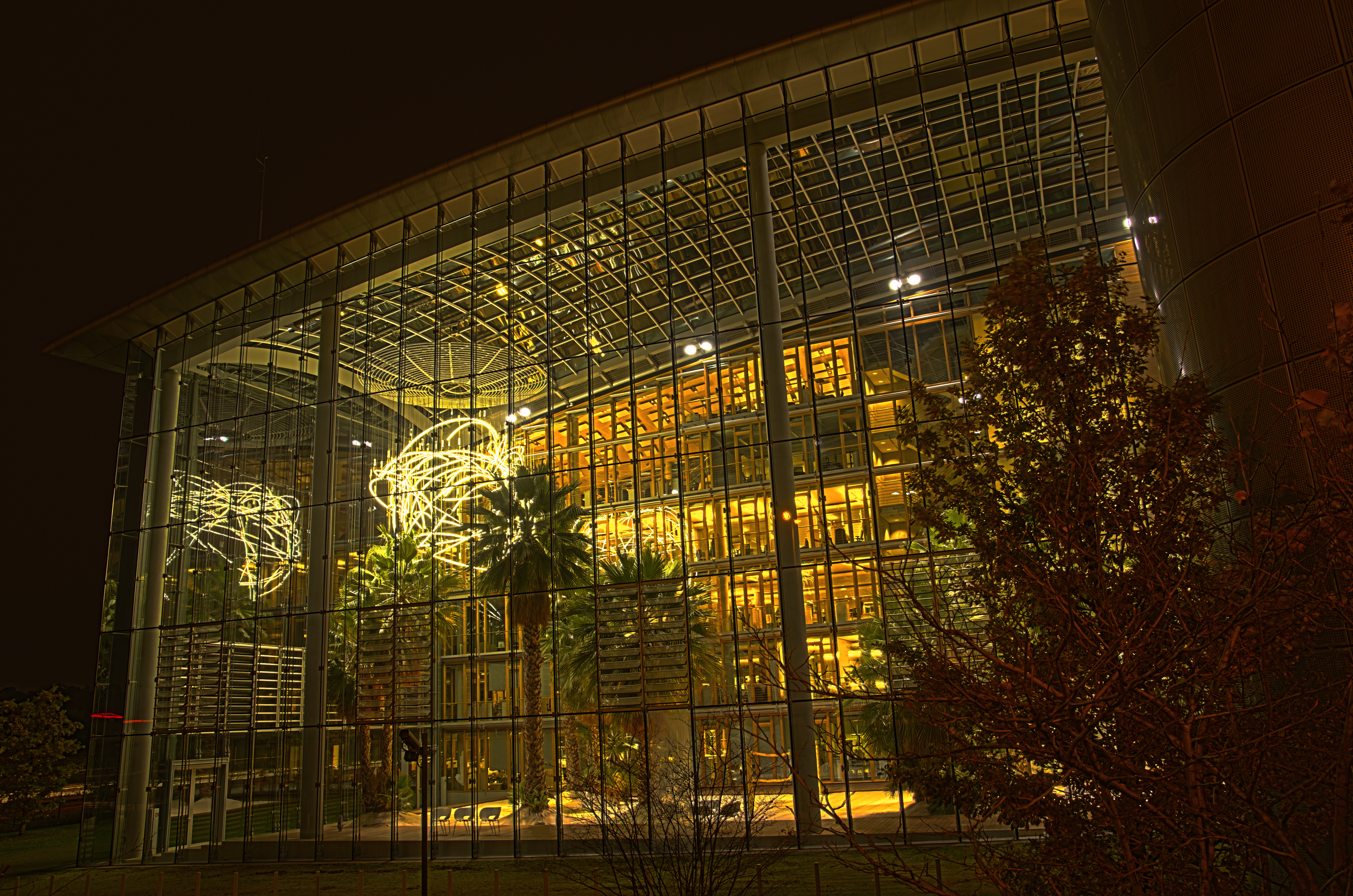 West wing of the Lufthansa Aviation Center near the Frankfurt airport (Fraport). HDR image (tone-mapped), composed from 4 takes with exposure value differences of 2.